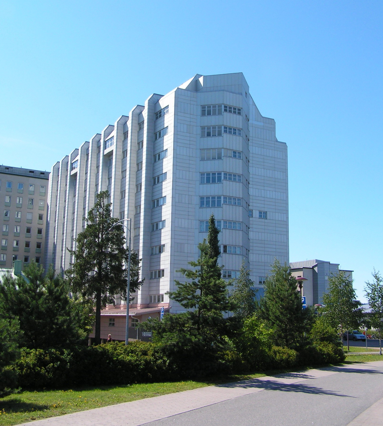 Norrland's University Hospital, Umeå, Sweden